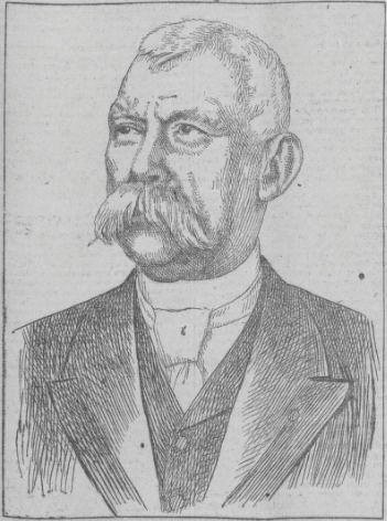 Mayor of Bergen, NH